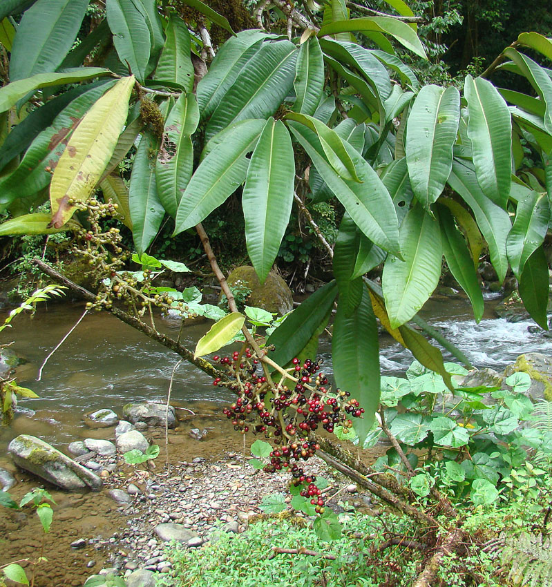 Fruit of a medicinal tree found from southern Mexico to Venezuela. Photo from Los Quetzales Park, Costa Rica. In context at